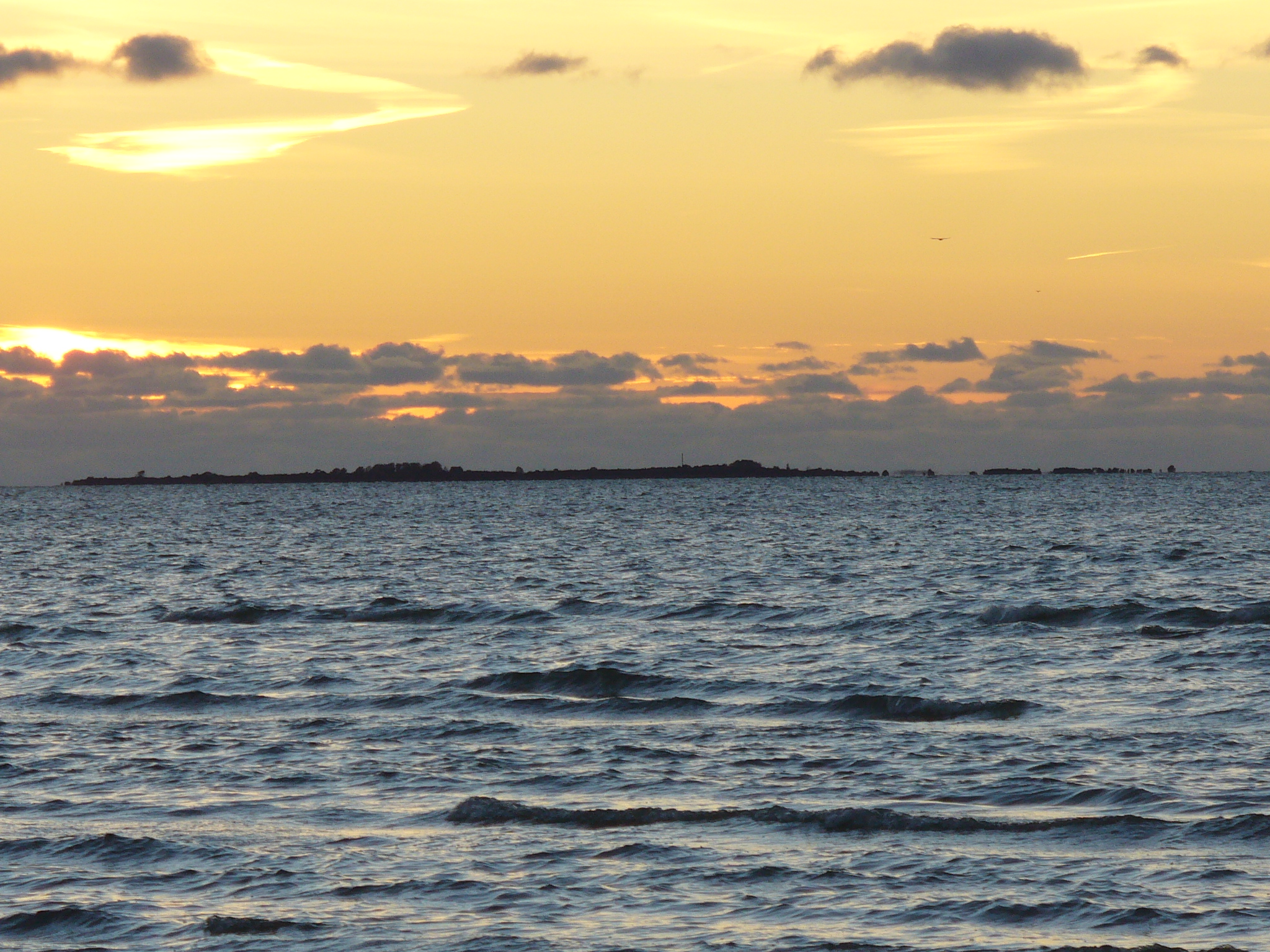 Kumari laid. View from Puise peninsula, Ridala parish, Lääne county, Estonia.